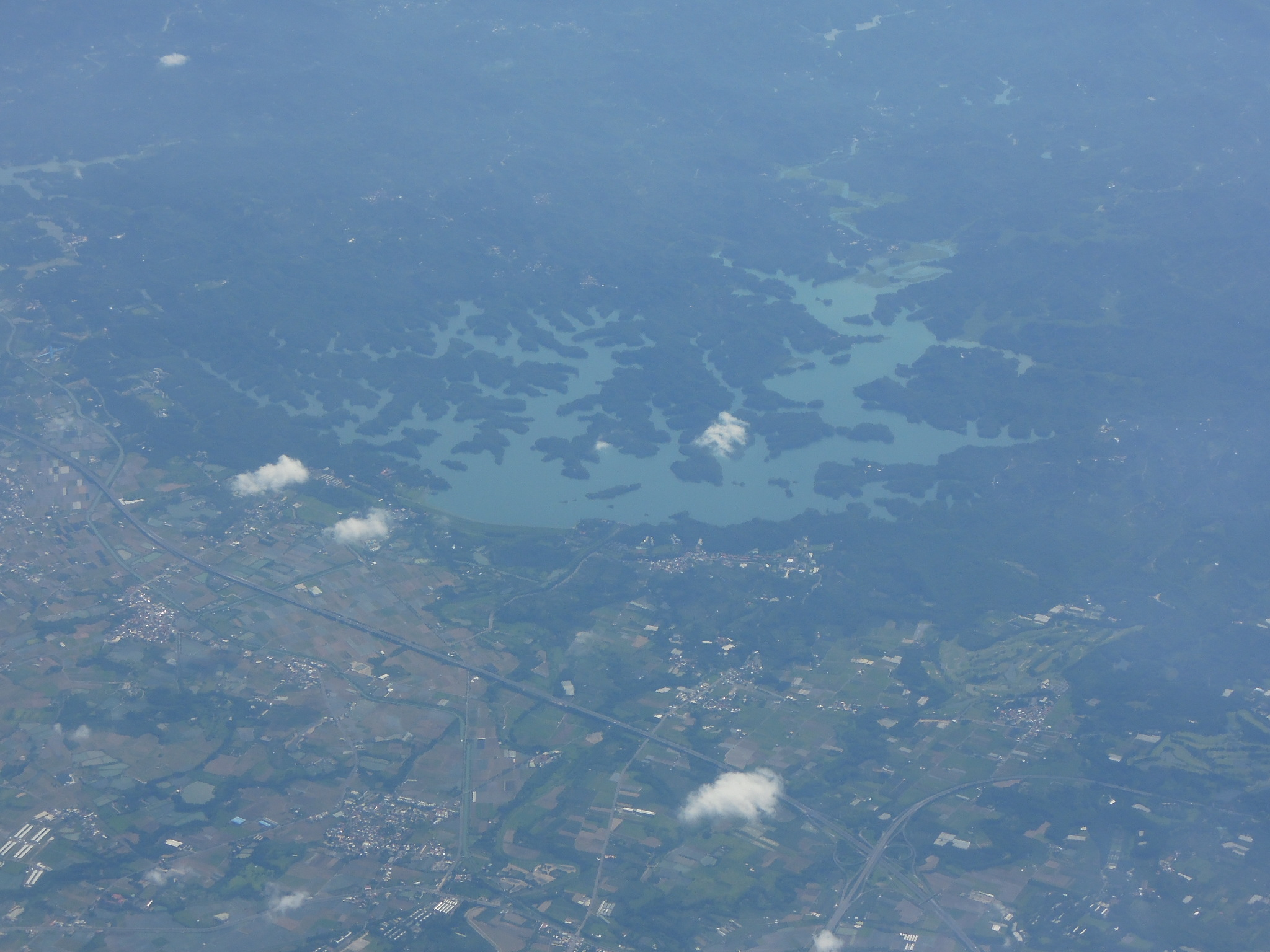 Wushantou Dam (also known as Coral Lake), Tainan. This photo was taken from airplane window.